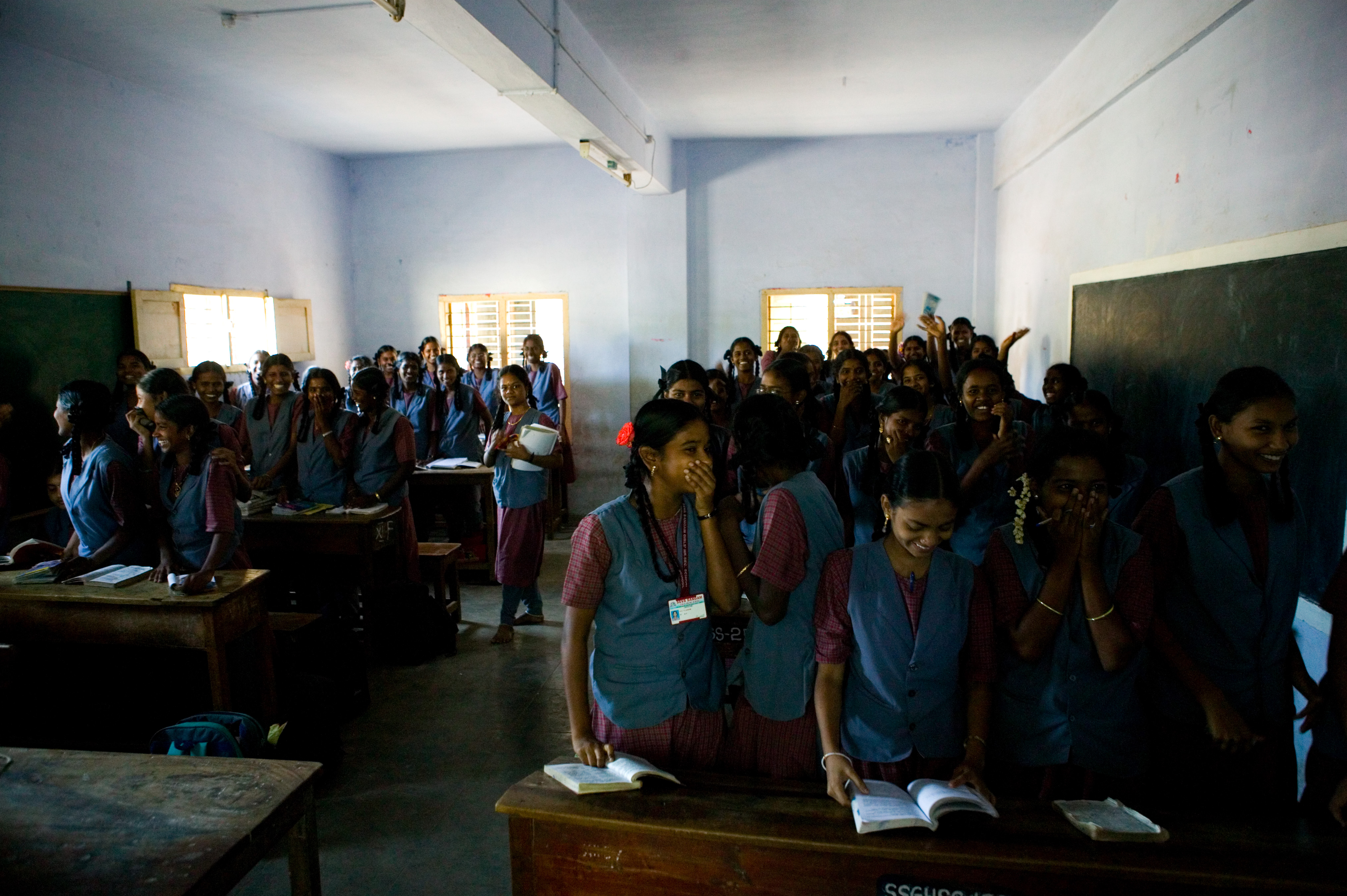 Girls only school India